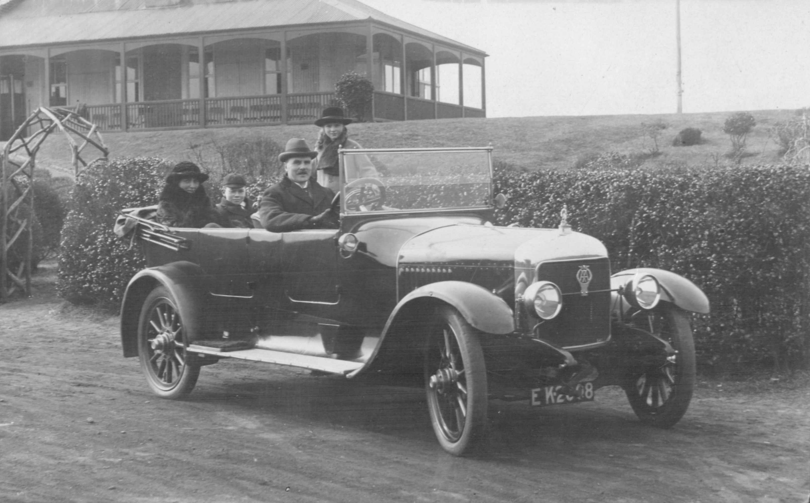 A 1922 Vulcan 20HP Tourer